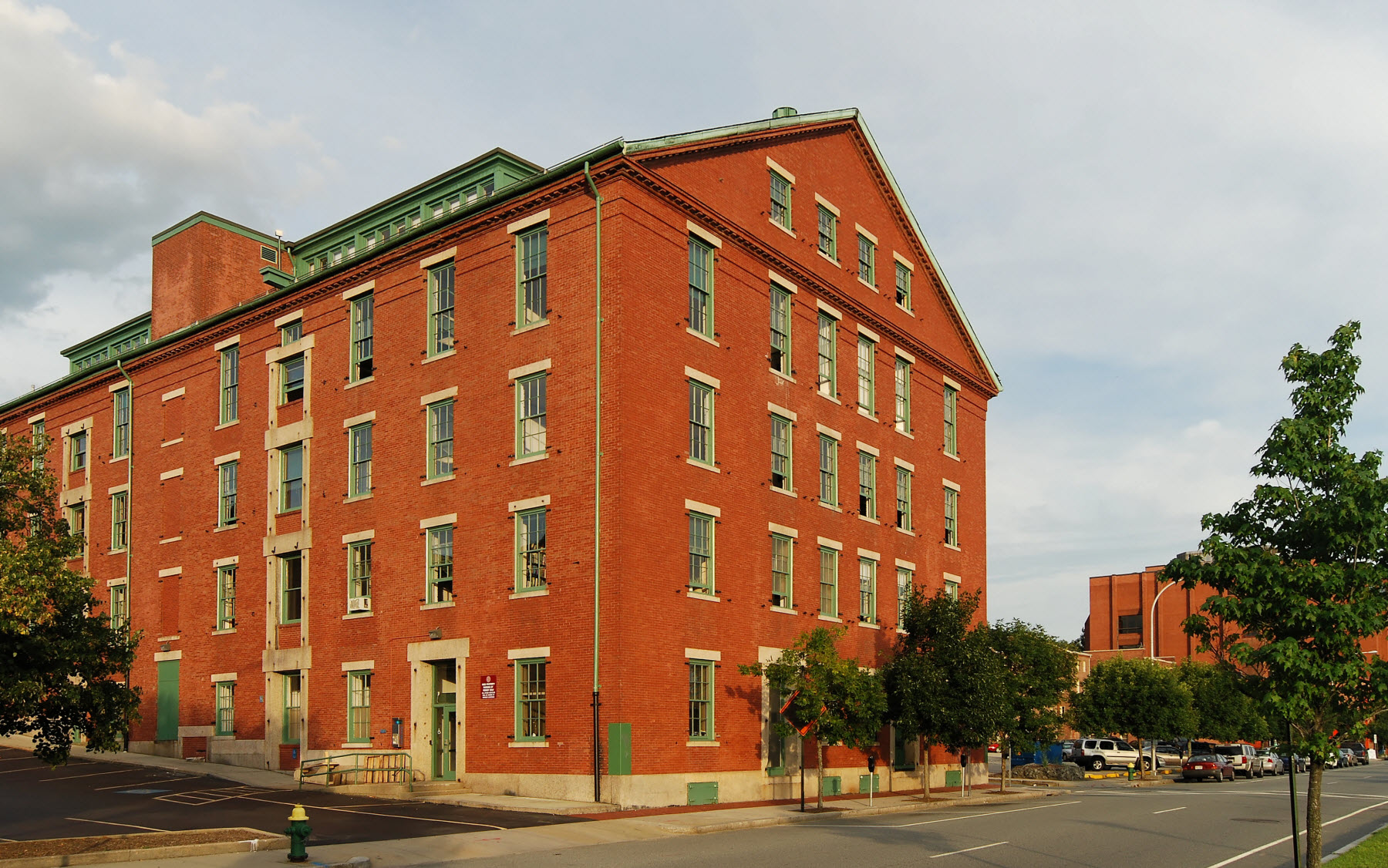 Fall River Iron Works building, Providence, Rhode Island (now part of RISD)